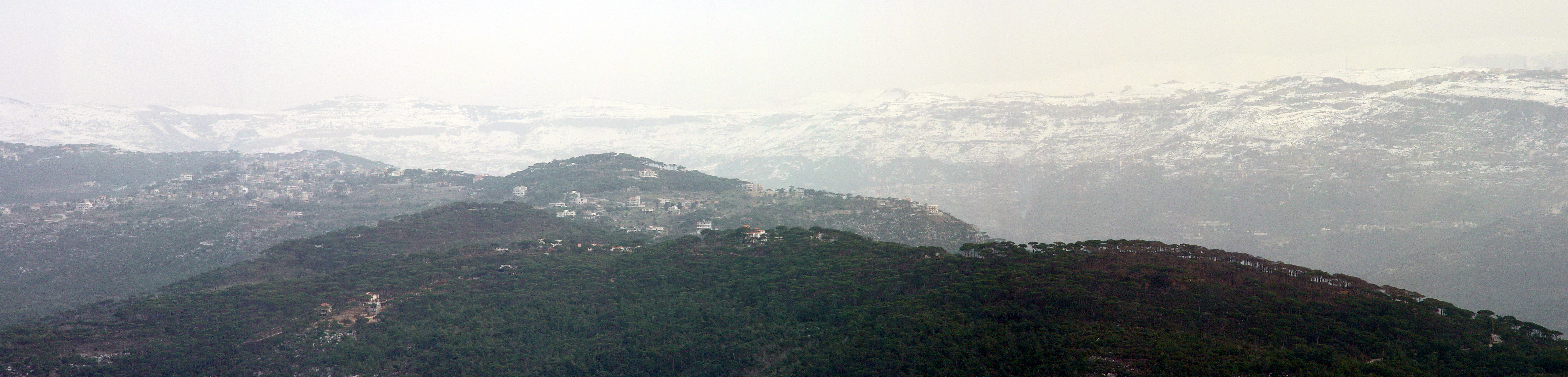 You can see the assembled lines... can't figure out how to remove them. but these are the famous Lebanese mountains covered with snow Update: I finally figured out how to stitch photos. so I replaced this with a much better one.